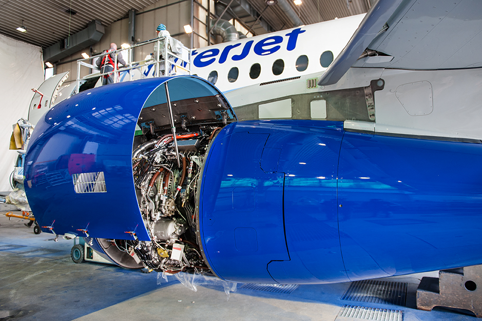 The aircraft, Manufacture Serial Number 95023, is the first aircraft to be delivered to the Mexican carrier Interjet, which is the launch customer in the western market. In total Interjet ordered 20 SSJ100 aircraft in a 93 seats configuration. The livery features white and blue stripes according to the customer’s paint scheme. Activities on the aircraft are undergoing to deliver the first Interjet SSJ100 by spring 2013.